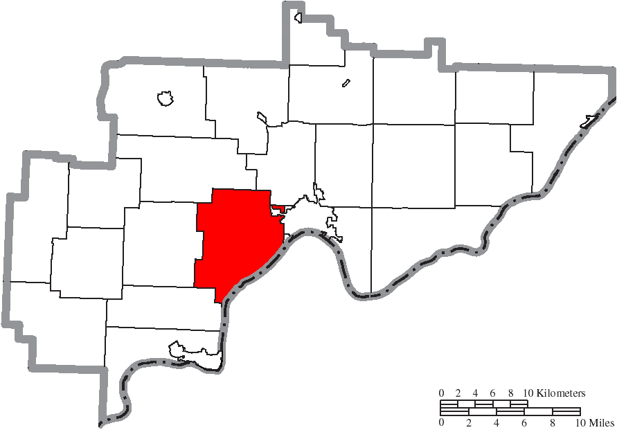 Map of the municipal and township boundaries of Washington County, Ohio, United States, as of the 2000 census, with the location of Warren Township highlighted. Township borders are shown only in unincorporated areas in order to differentiate incorporated and unincorporated areas more clearly.